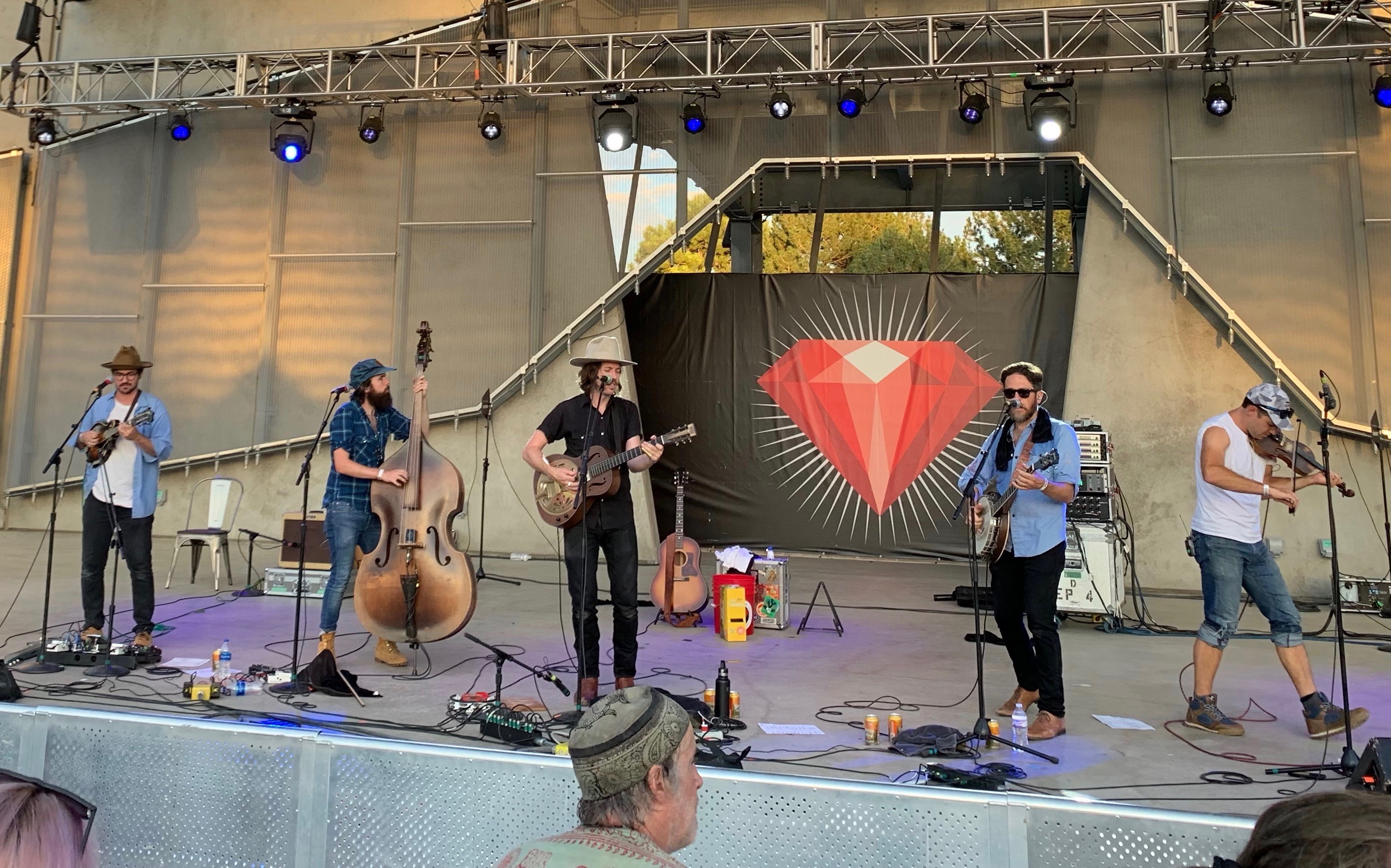 The Brothers Comatose perform in Denver Colorado in August 2019